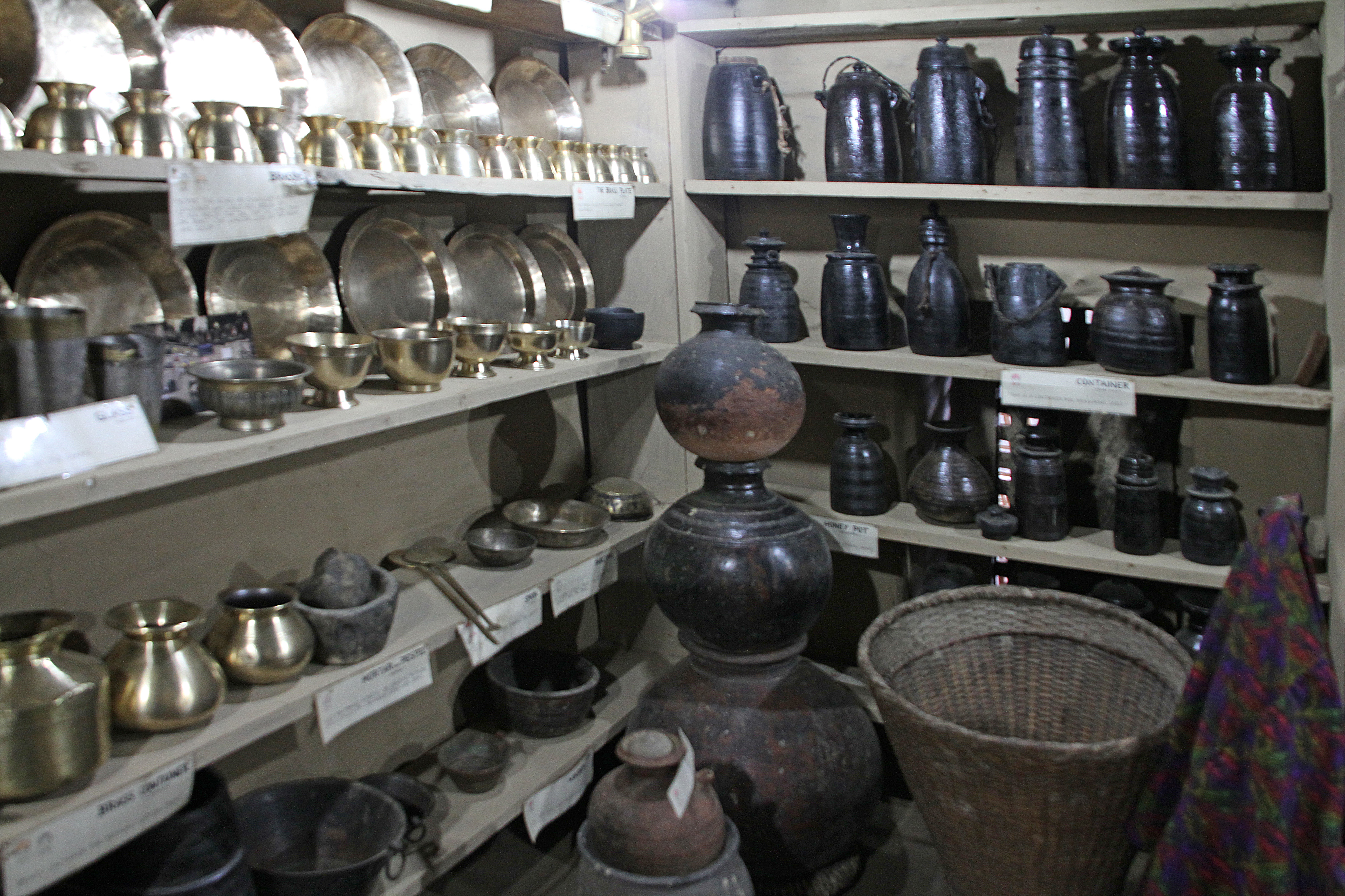 Village of Ghandruk in Nepal